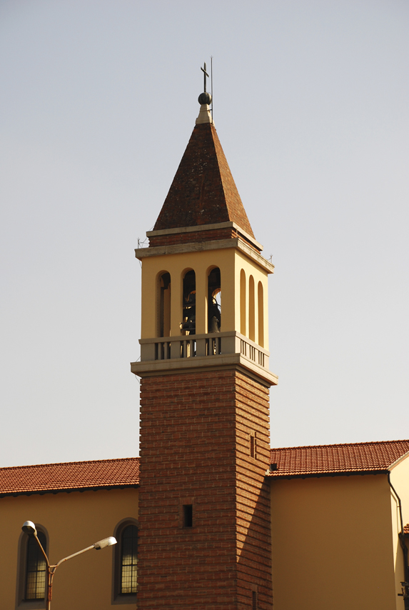 the Church of Santo Stefano at Ugnano, Florence, Italy. Bell Tower. Detail.